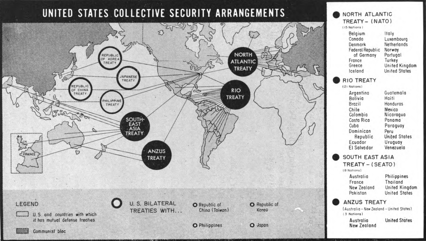 United States collective security arrangements by the year 1960